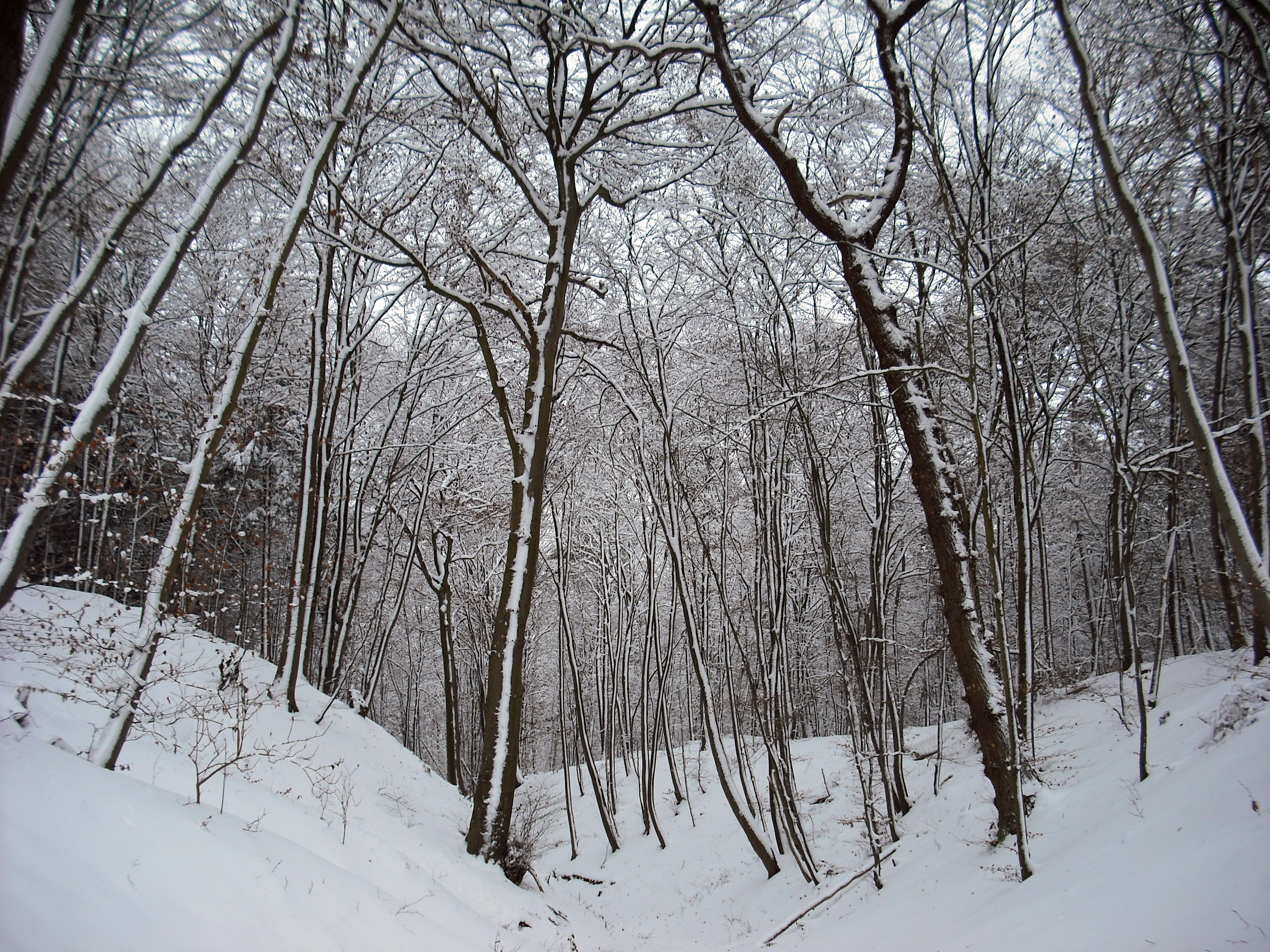 Schlucht - Kleve-Donsbrüggen, Germany.